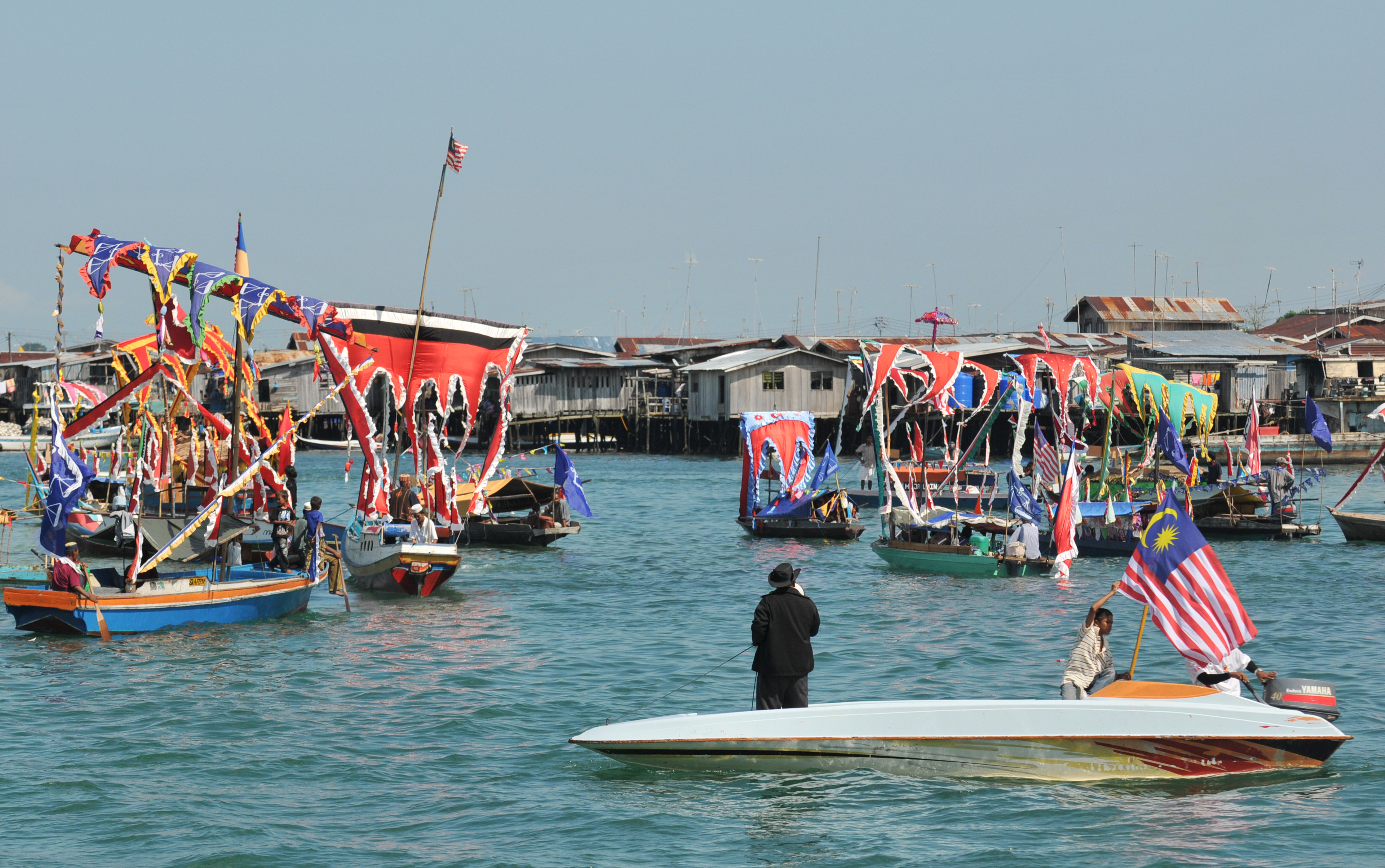 event organizer brief participants Regatta lepa before the the event started at Semporna, Sabah, Malaysia. Lepa means Boat in the dialect of east coast Bajau. The Regatta Lepa in Semporna is one of the most colourful cultural events. In this festival, Bajau people will decorate their boats with colourful flags.